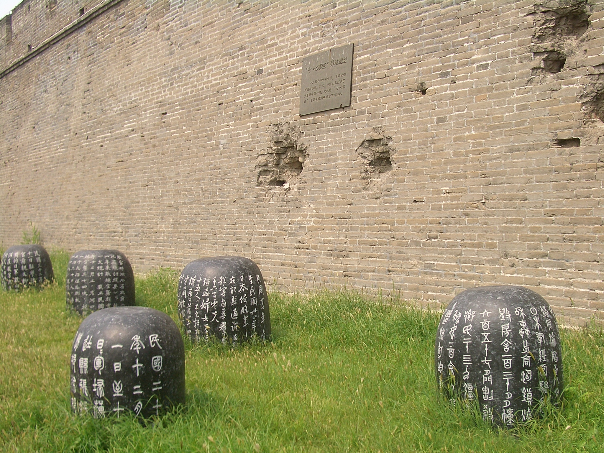 At the south wall of the Wanping Castle in Beijing. The spot damaged by the Japanese shelling during the Marko Polo Bridge (Lugouqiao) Incident in 1937 are marked with a memorial plaque. The text on the row of black stone drums along the walls tells the story of the War against Japan that followed the incident.